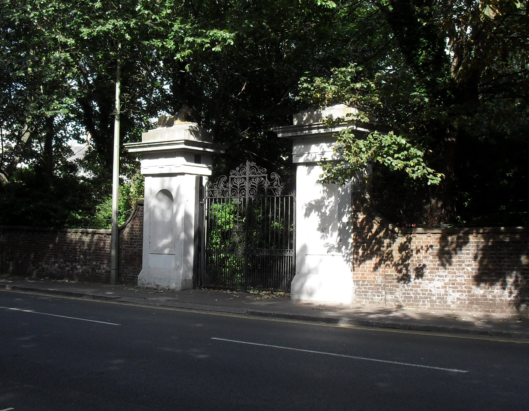 Gate piers at Park Crescent, Union Road, Brighton, City of Brighton and Hove, England. Listed at Grade II by English Heritage (IoE Code 481380)